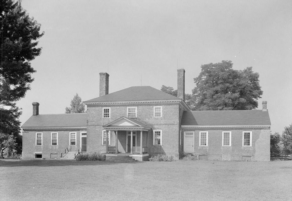 Belle Isle, State Route 683, Somers vicinity (Lancaster County, Virginia) cropped This file comes from the Historic American Buildings Survey (HABS), Historic American Engineering Record (HAER) or Historic American Landscapes Survey (HALS). These are programs of the National Park Service established for the purpose of documenting historic places. Records consist of measured drawings, archival photographs, and written reports. When reusing please credit: Library of Congress, Prints & Photographs Division, VA,52-SOM.V,1-4 This tag does not indicate the copyright status of the attached work. A normal copyright tag is still required. See Commons:Licensing for more information. English | +/− This work is in the public domain in the United States because it is a work prepared by an officer or employee of the United States Government as part of that person’s official duties under the terms of Title 17, Chapter 1, Section 105 of the US Code. See Copyright. Note: This only applies to original works of the Federal Government and not to the work of any individual U.S. state, territory, commonwealth, county, municipality, or any other subdivision. This template also does not apply to postage stamp designs published by the United States Postal Service since 1978. (See 206.02(b) of Compendium II: Copyright Office Practices). It also does not apply to certain US coins; see The US Mint Terms of Use. This file has been identified as being free of known restrictions under copyright law, including all related and neighboring rights.